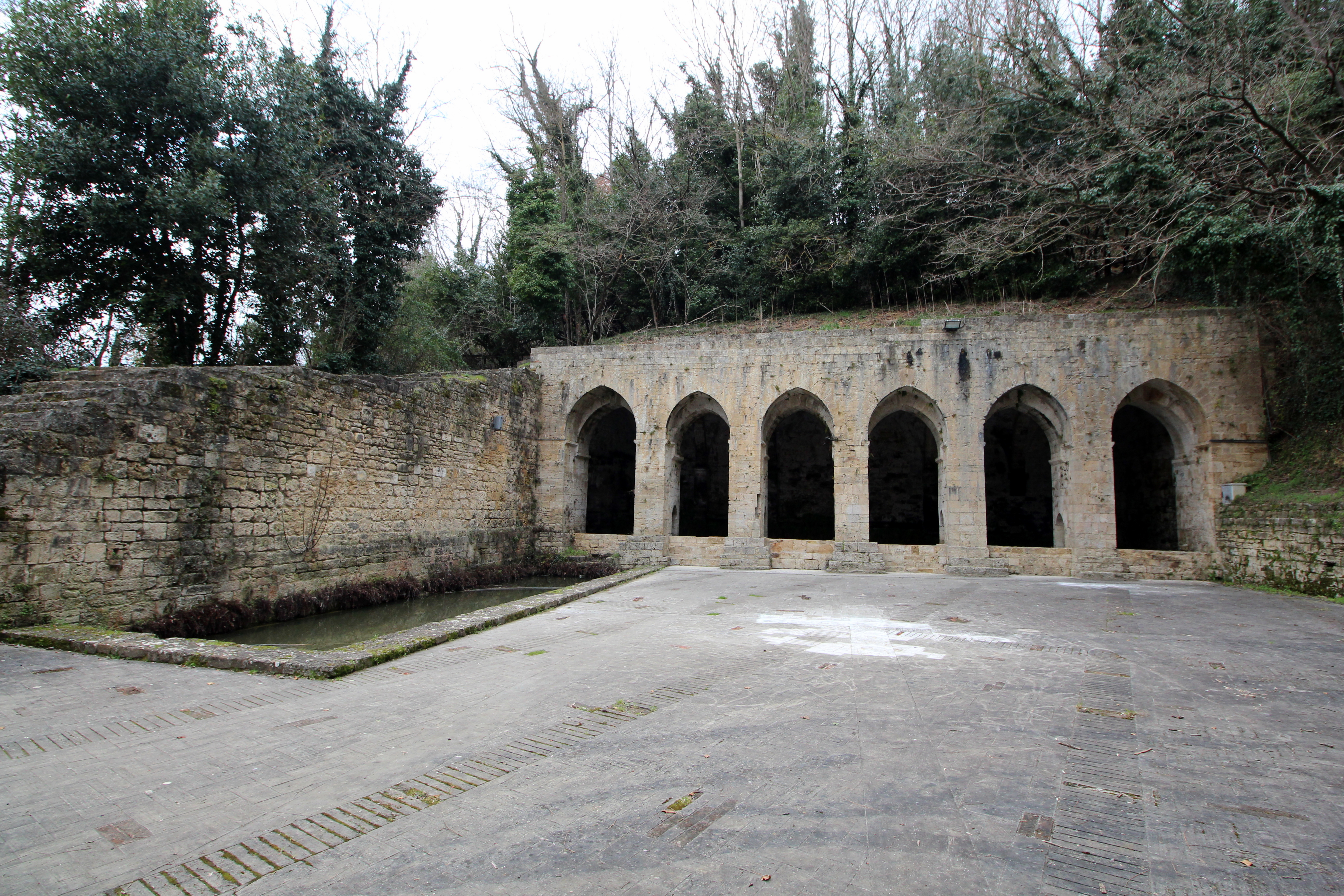 Fonte delle Fate, Fountain outside Poggibonsi near the Fortress Fortessa Medicea, Poggibonsi, Province of Siena, Tuscany, Italy